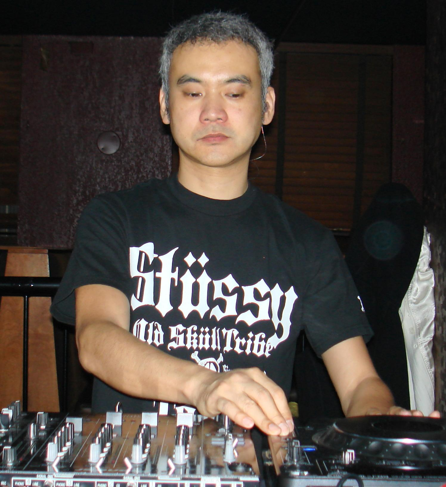 Satoshi Tomiie at Tantra, cropped by User:Wickethewok